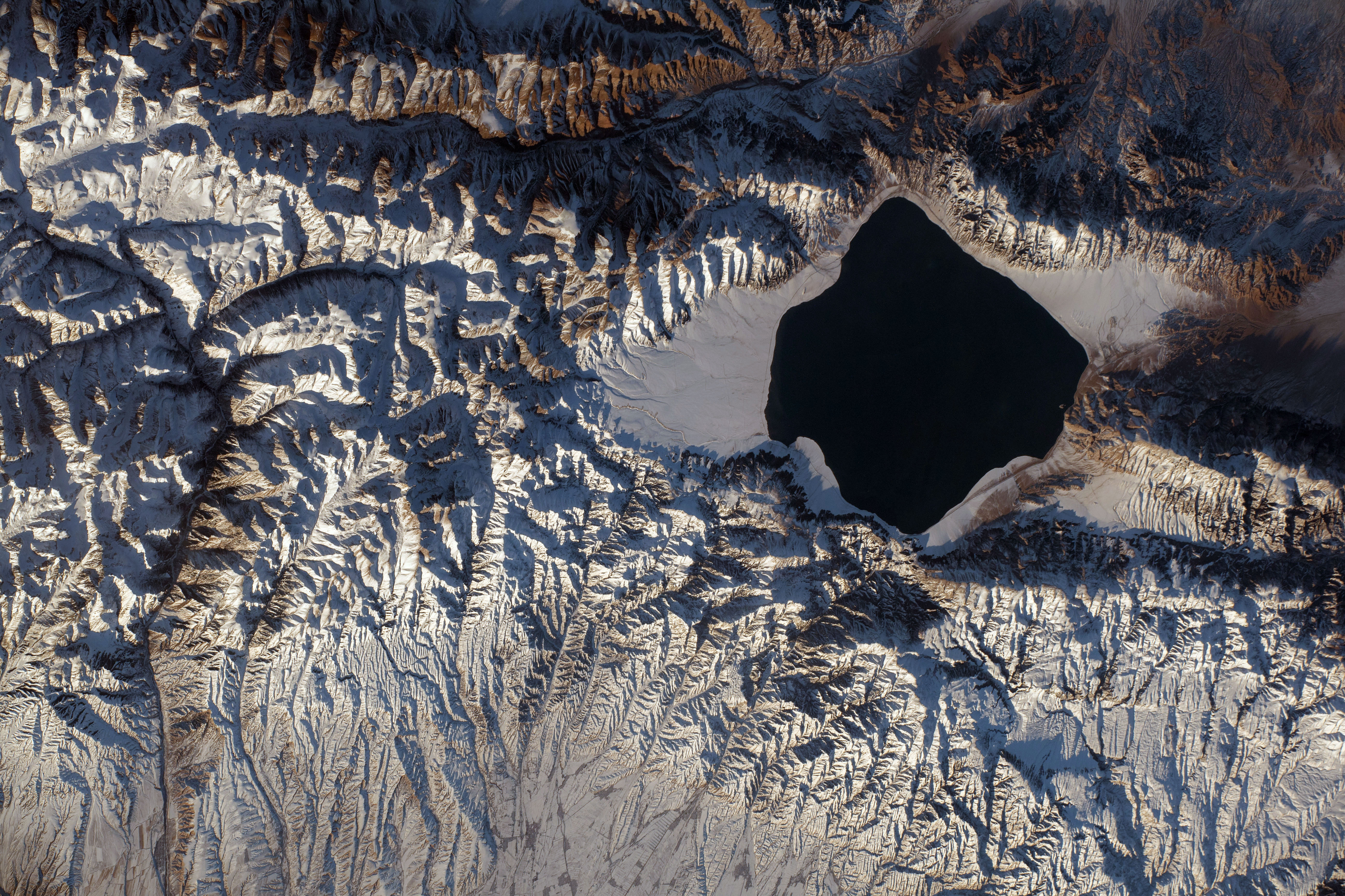 Sayram Lake is pictured in northwest China near the border with Kazakhstan as the International Space Station orbited 253 miles above the Asian continent.